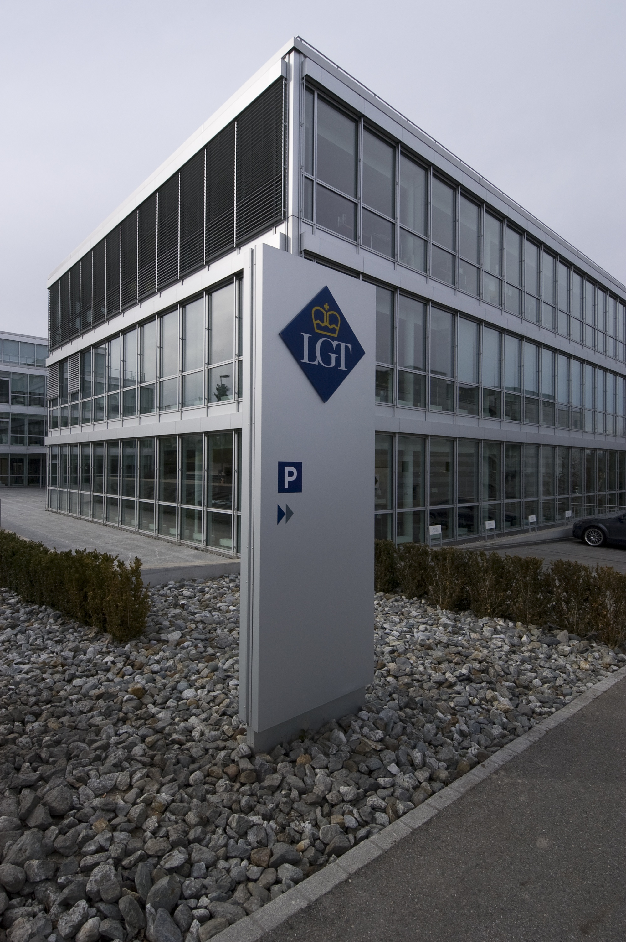 LGT in Pfäffikon SZ